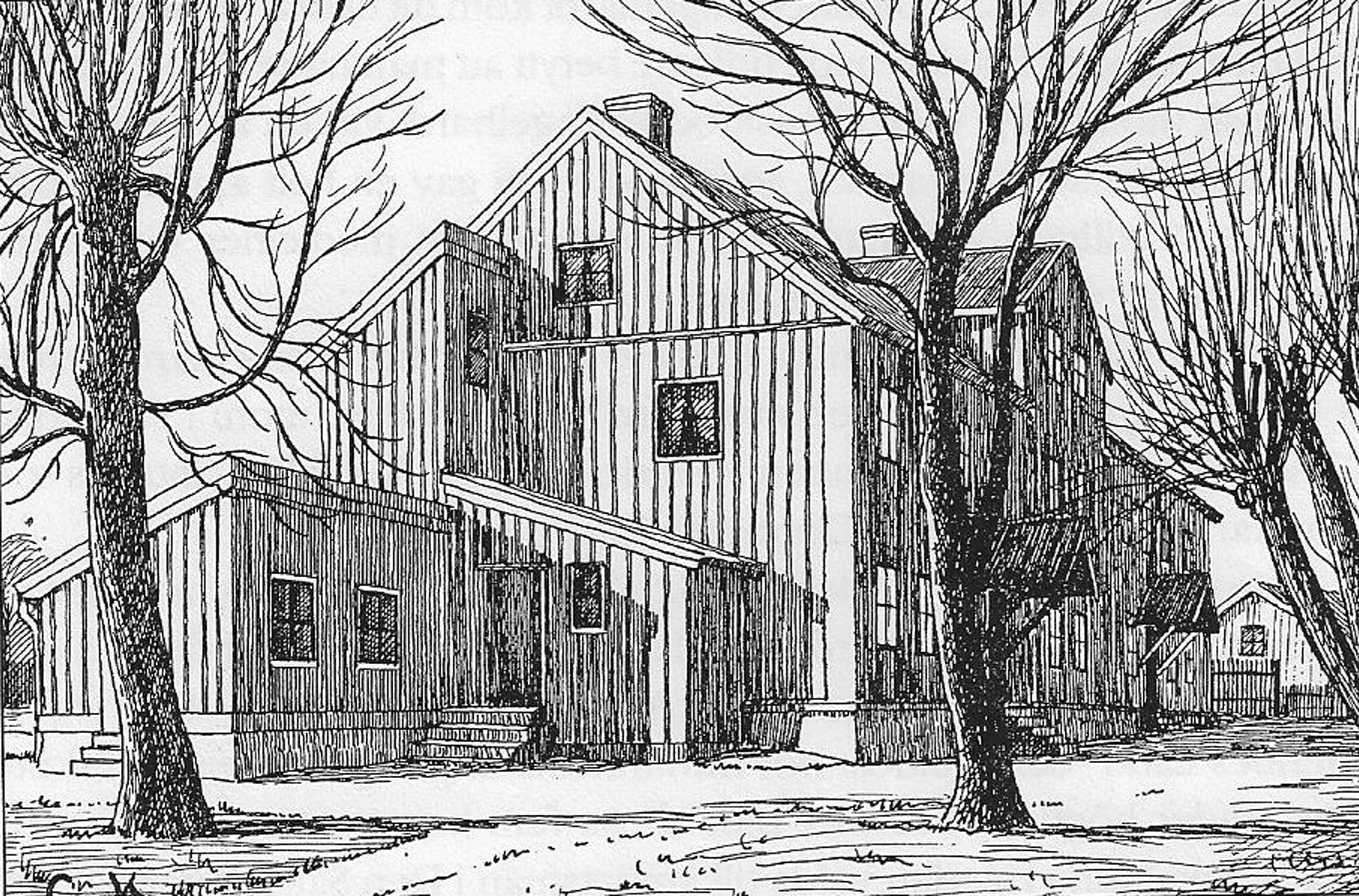 Marieholm, a mansion in Gothenburg, Sweden